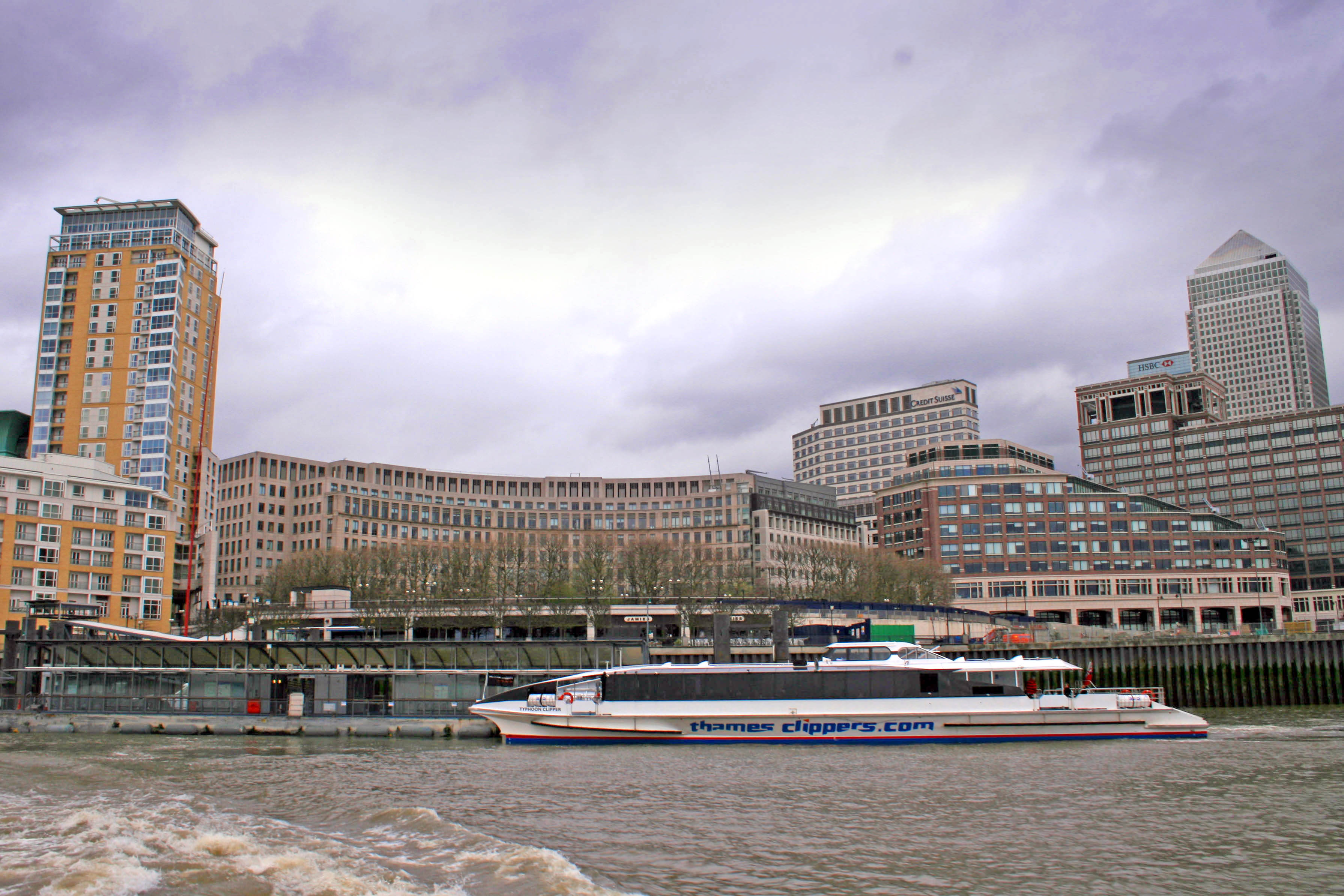 Canary Wharf Pier in the Docklands, London, UK